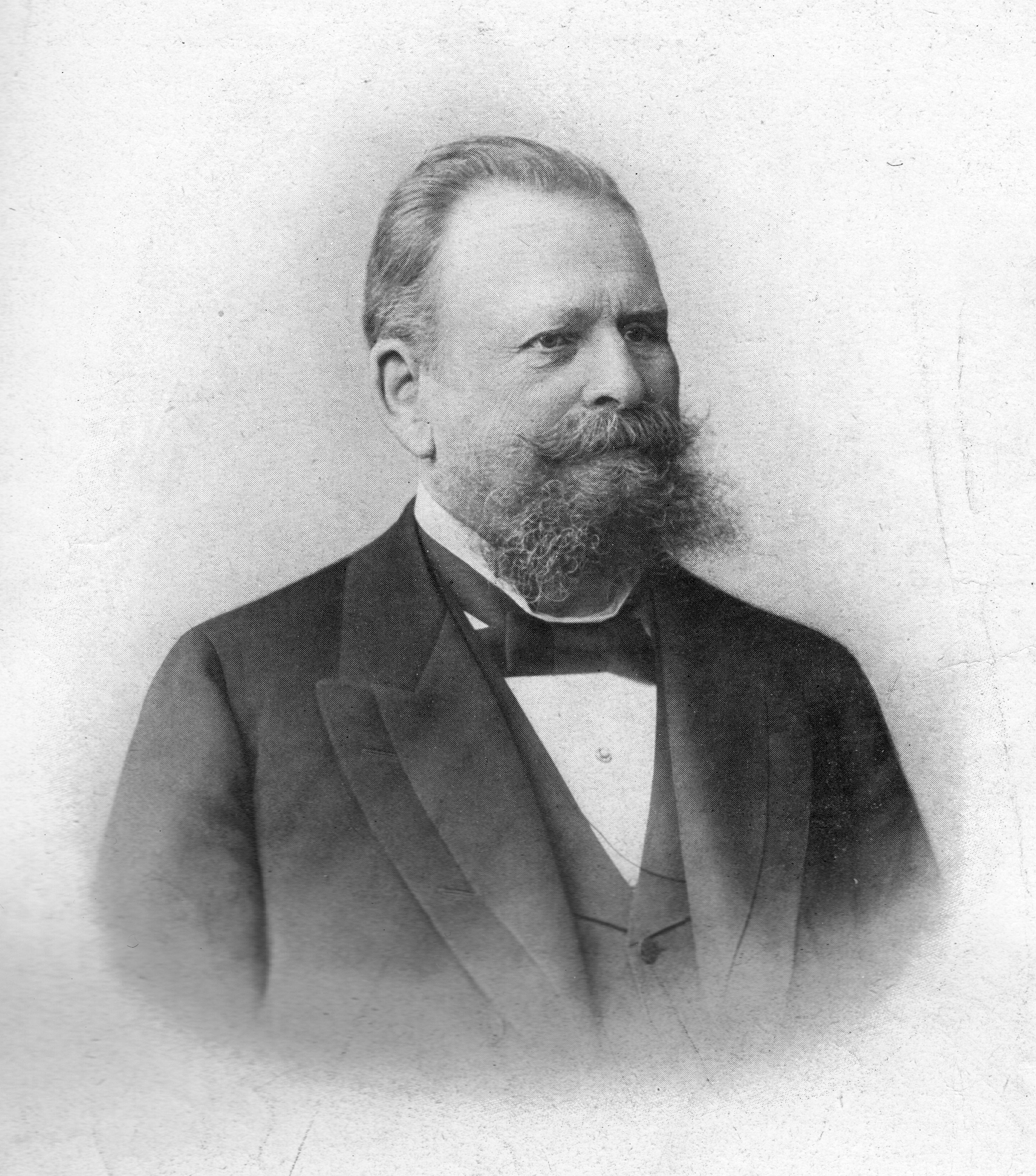 Peter-Paul Mauser (1838-1914)